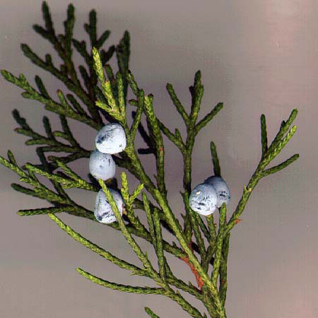 Juniperus virginiana twig and cones